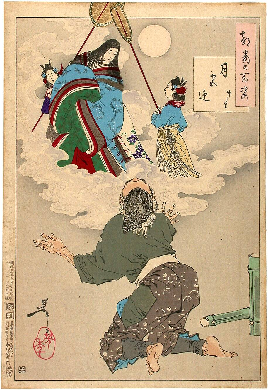 Received back into Moon Palace (Gekkyo no mukae)